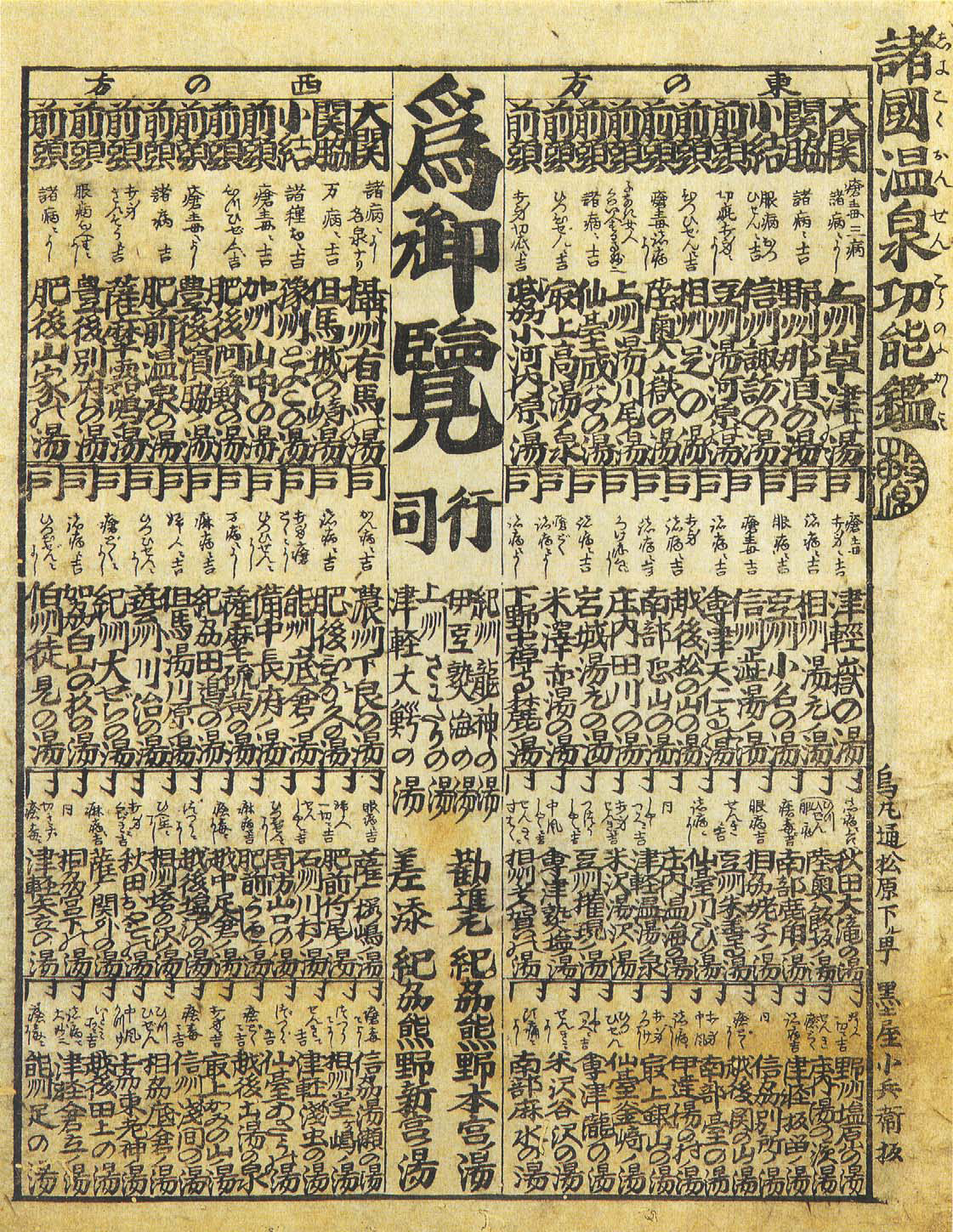 Onsen Banzuke in Edo period.